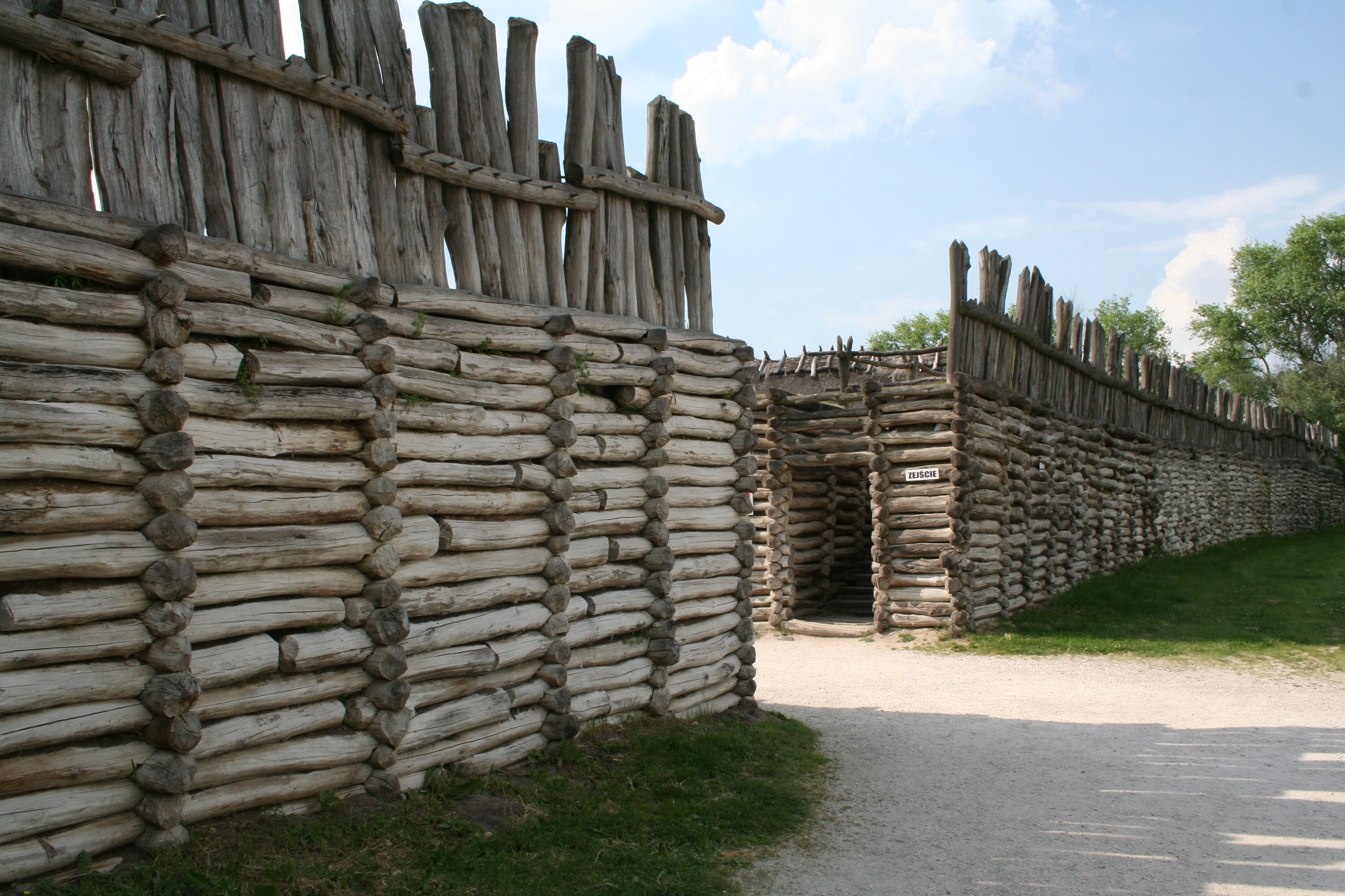 Archaeological open air museum Biskupin